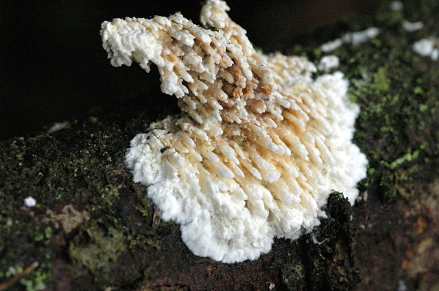 Hyphodontia arguta from Commanster, Belgium. If you think this is a different taxon, please contact James Lindsey.